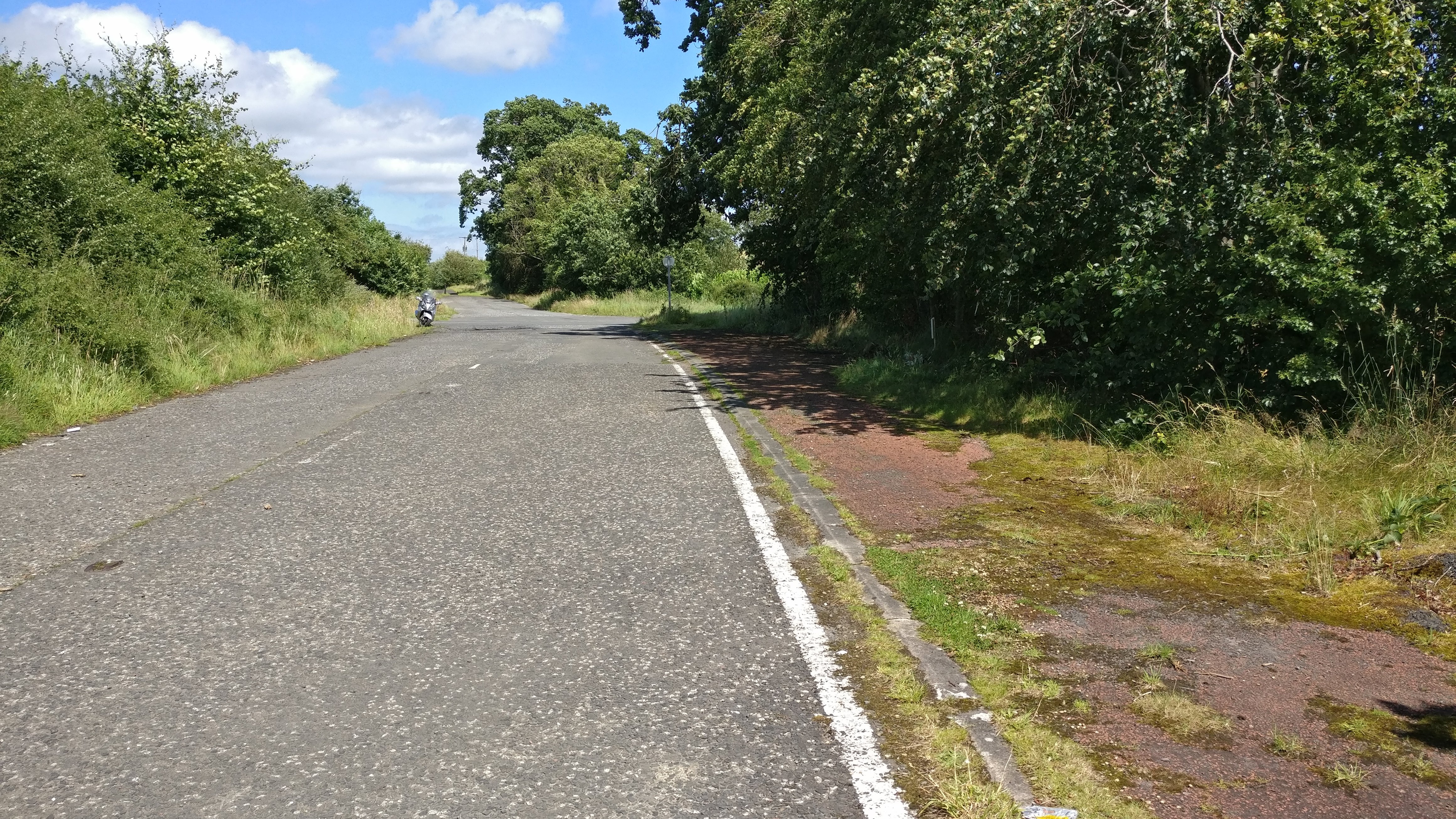 Showing the location of the killing of the Miami Showband Members facing North